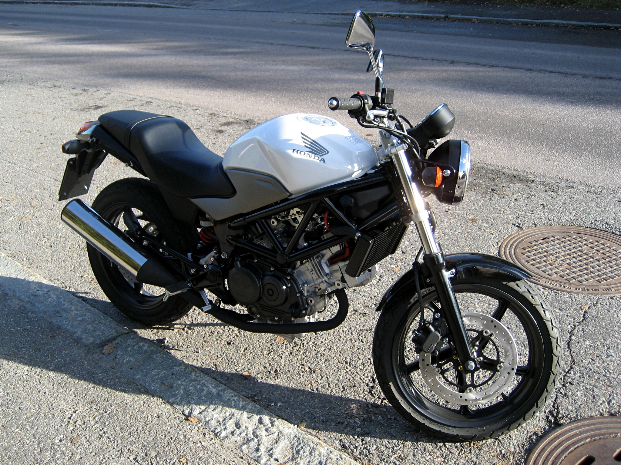 Honda VTR250 (2009 face lift) is an entry level quarter litre V-Twin designed for ease of use and low fuel consumption. It claims some 29 HP and weighs about 160 kg. It comes fitted with fuel injection (Honda's PGM-FI).